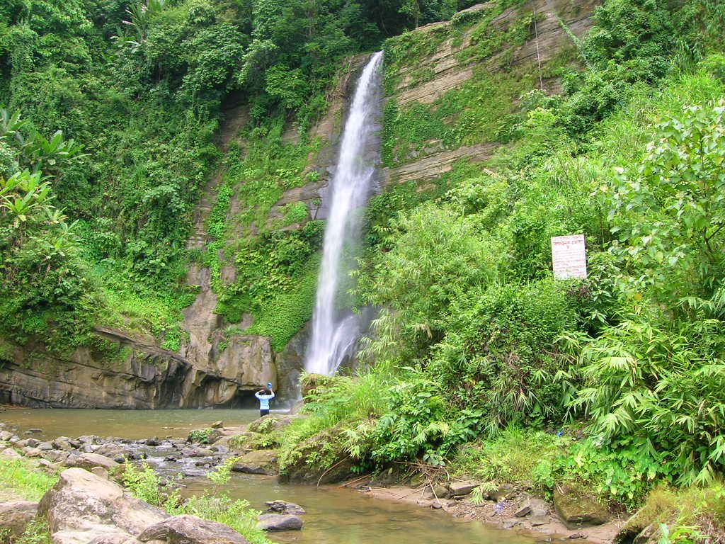 Picture of Madhabkunda waterfall